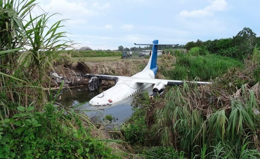 Air Niugini Flight 2900 wreckage